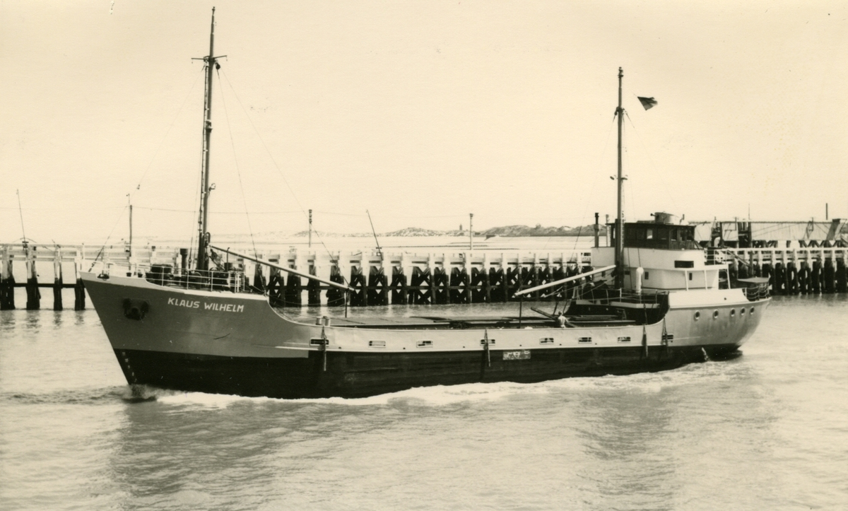 Coastal motor vessel KLAUS WILHELM (IMO 5190094) built at Rickmers Werft, Bremerhaven (yard № 245, launched: 17-12-1949, completed: 24-01-1950) for Wilhelm tom Wörden, Hamburg, 1951 lengthened (46.7 m Loa, 340 GRT), 1966 URSULA P. (Erich Pohlmann, Hamburg), 1973 URSULA (Ursula Sg Co Ltd, Famagusta), 1975 BARRY (R.Pahladsingh & Zonen, Limassol), 1978 URSULA (R. Pahladsingh & Zonen, Panama), 1999 deleted from register; collection J. Robert Boman (1926 - 2002) owned by Sjöhistoriska museet.